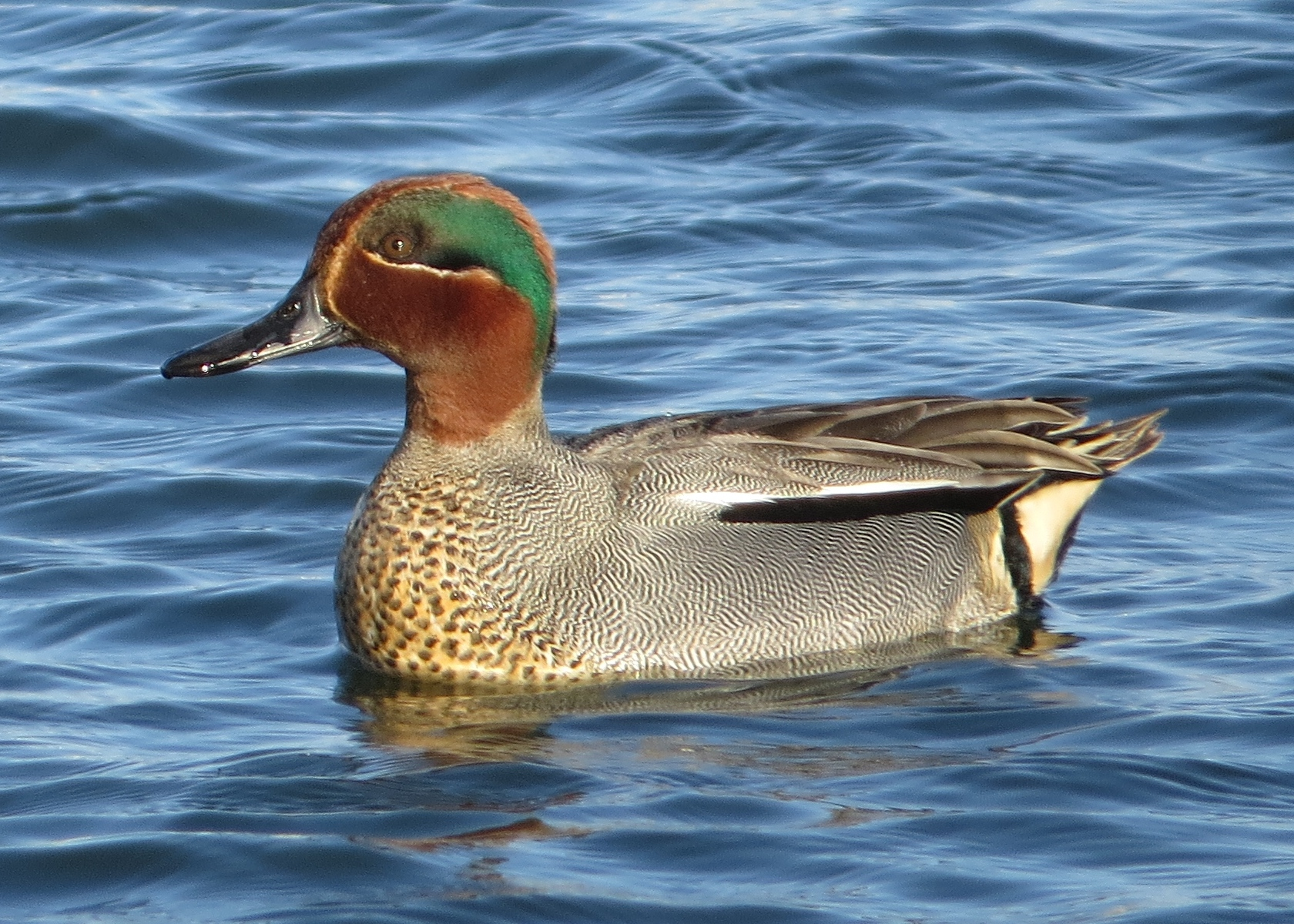 Eurasian Teal (Anas crecca Linnaeus, 1758), male , in Mie prefecture, Japan.